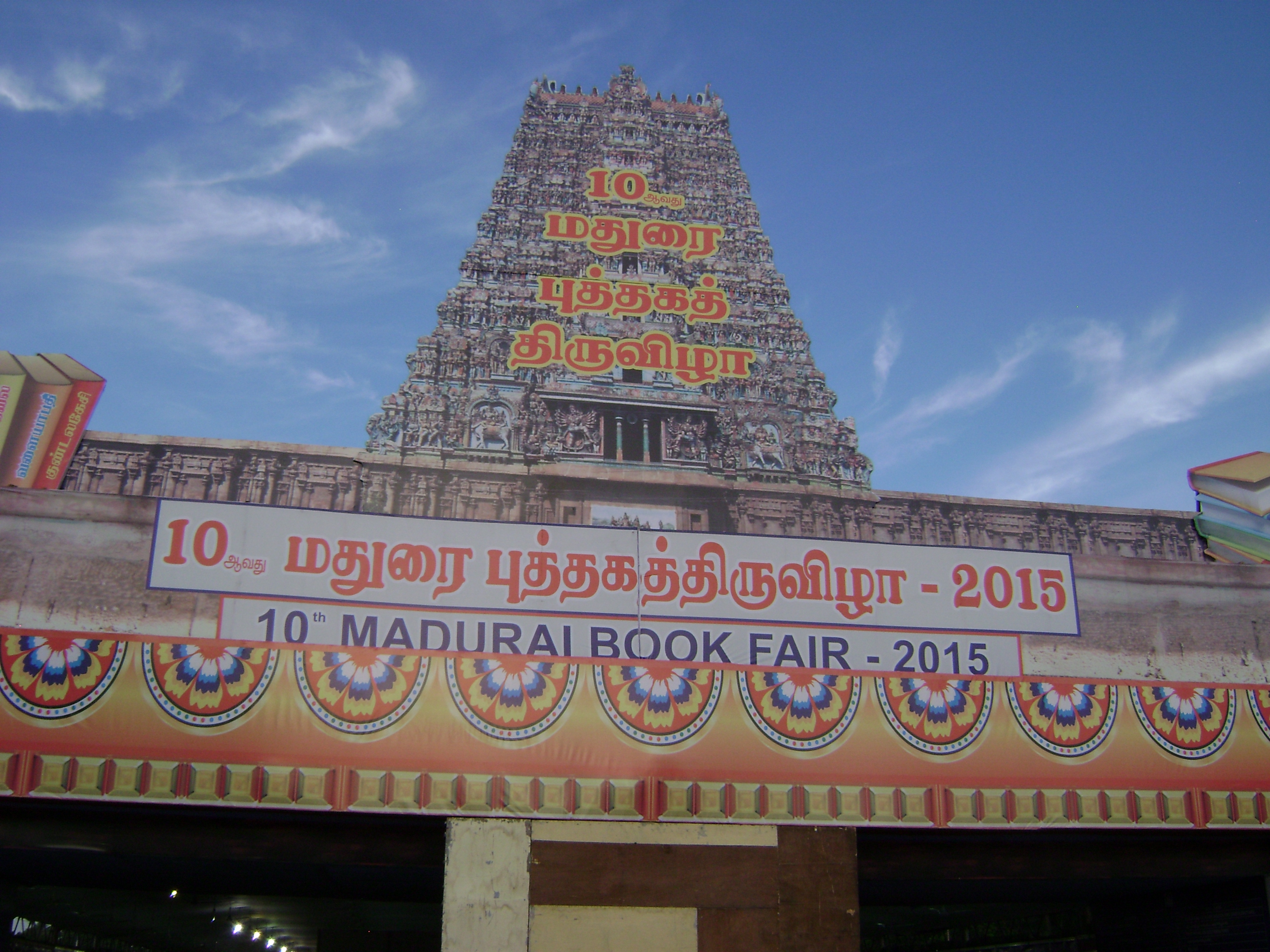 10th Book Fair at Madurai 28 August 2015 - 7 September 2015